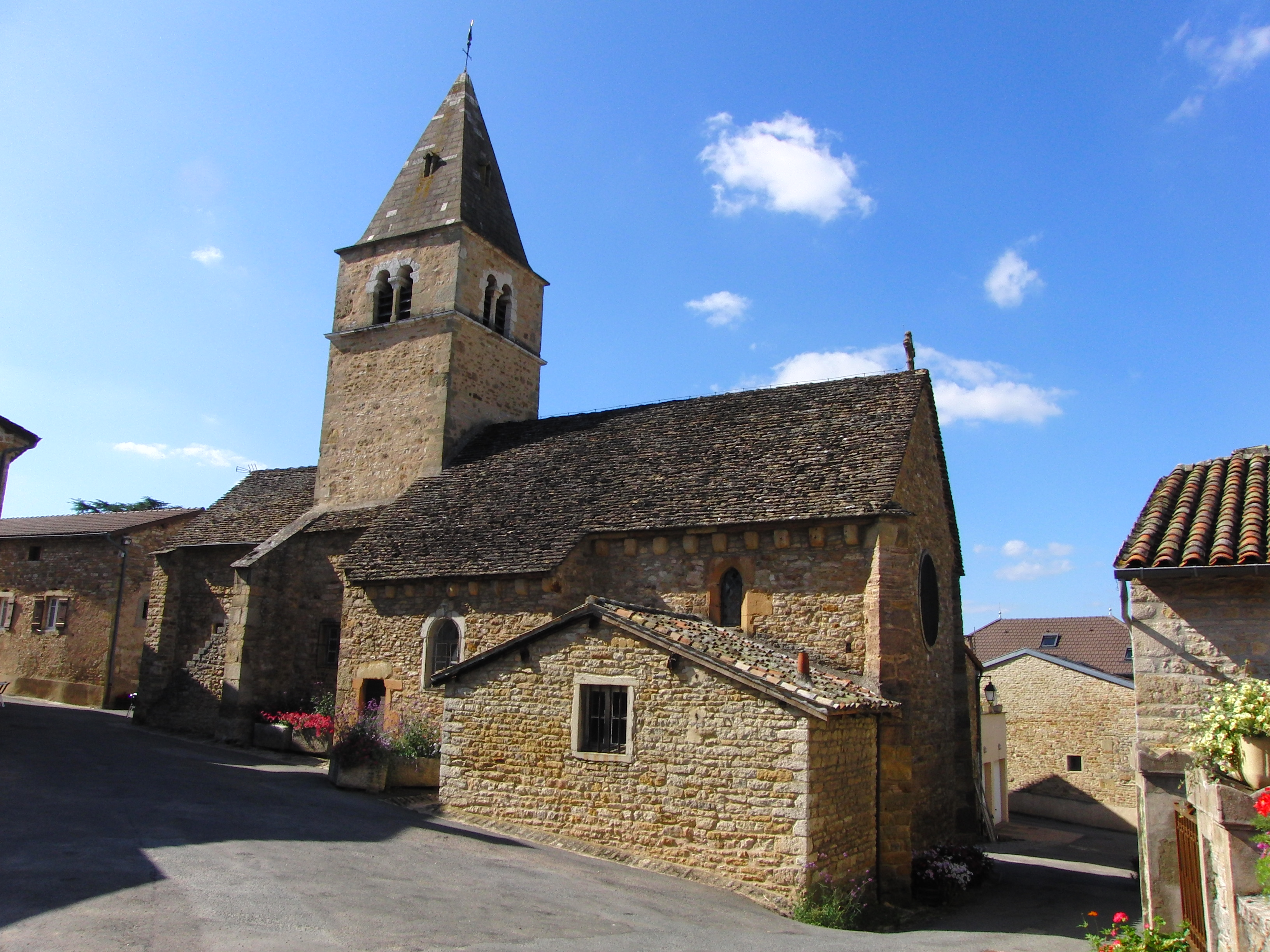 Milly-Lamartine's church, Saône-et-Loire, France